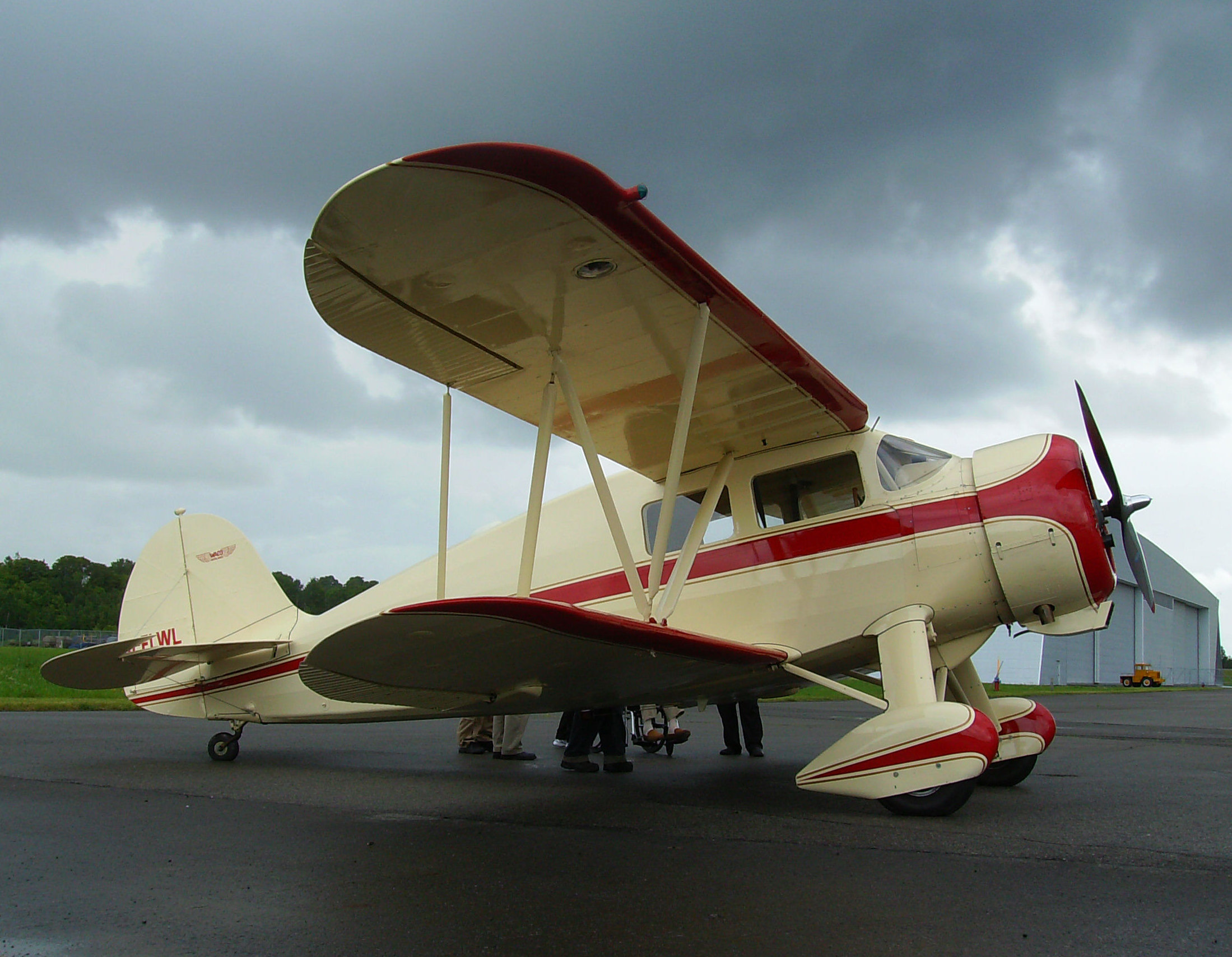 1937 Waco VKS-7 late Standard Cabin biplane (C-FLWL) at the Canada Aviation and Space Museum at Rockcliffe (Ottawa), Ontario on the occasion of its donation to the museum's collection. Note the lack of rear view windows as is typical for late production standard cabin biplanes, and the use of ailerons on both wings, with associated linkage bar.